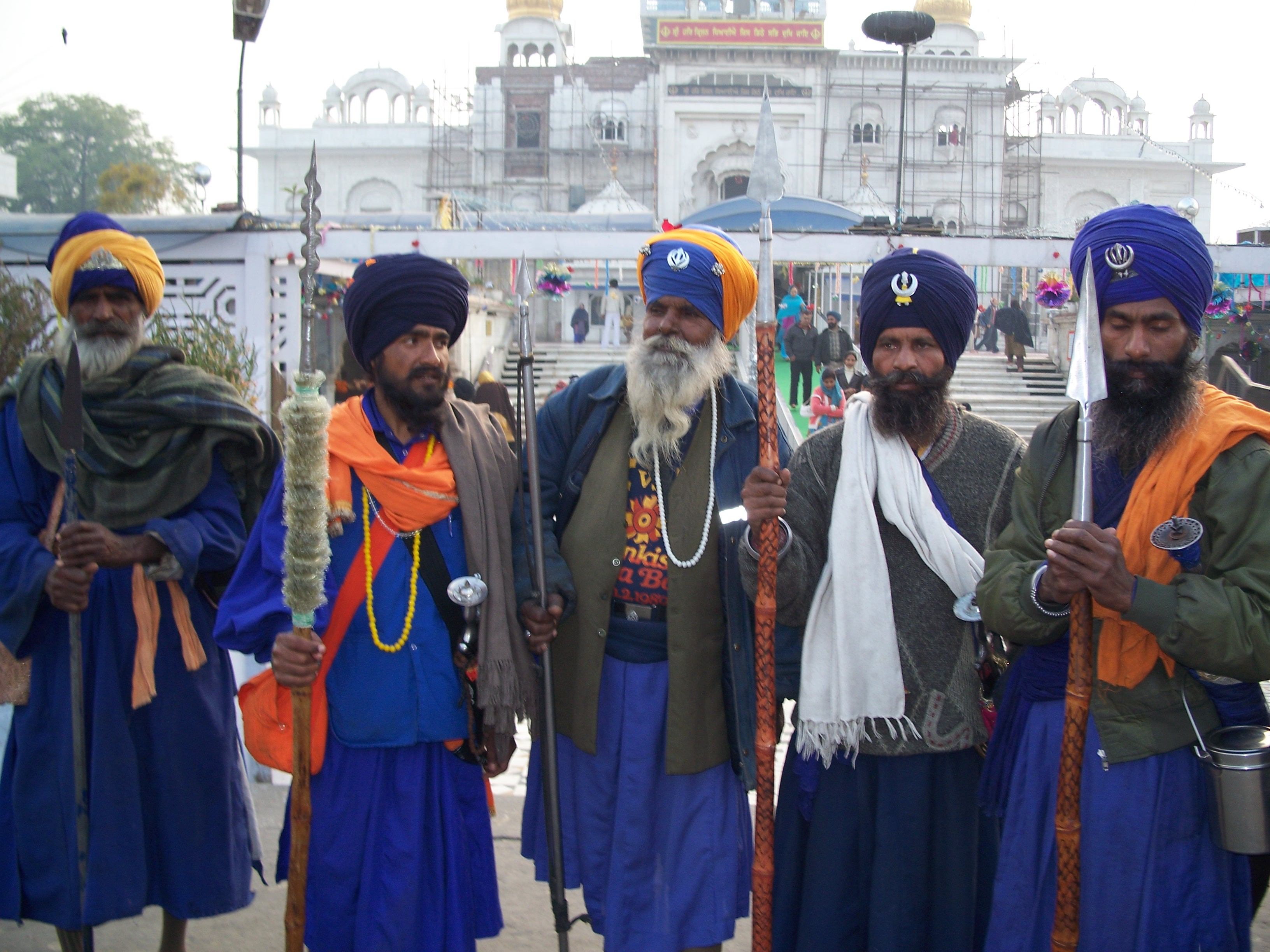 A photograph of 5 men standing, holding spears.